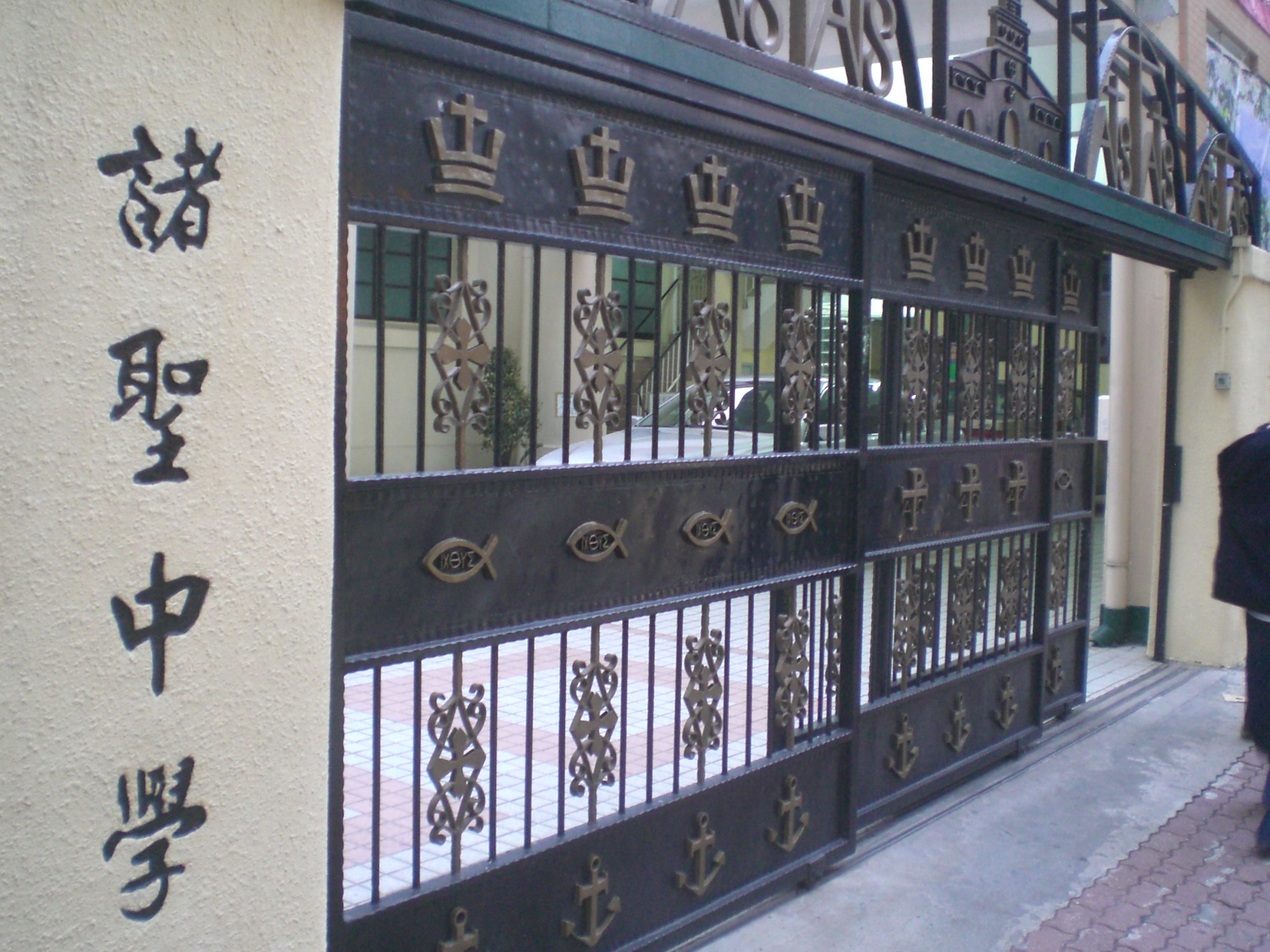 旺角聖公會zh-yue:諸聖中學